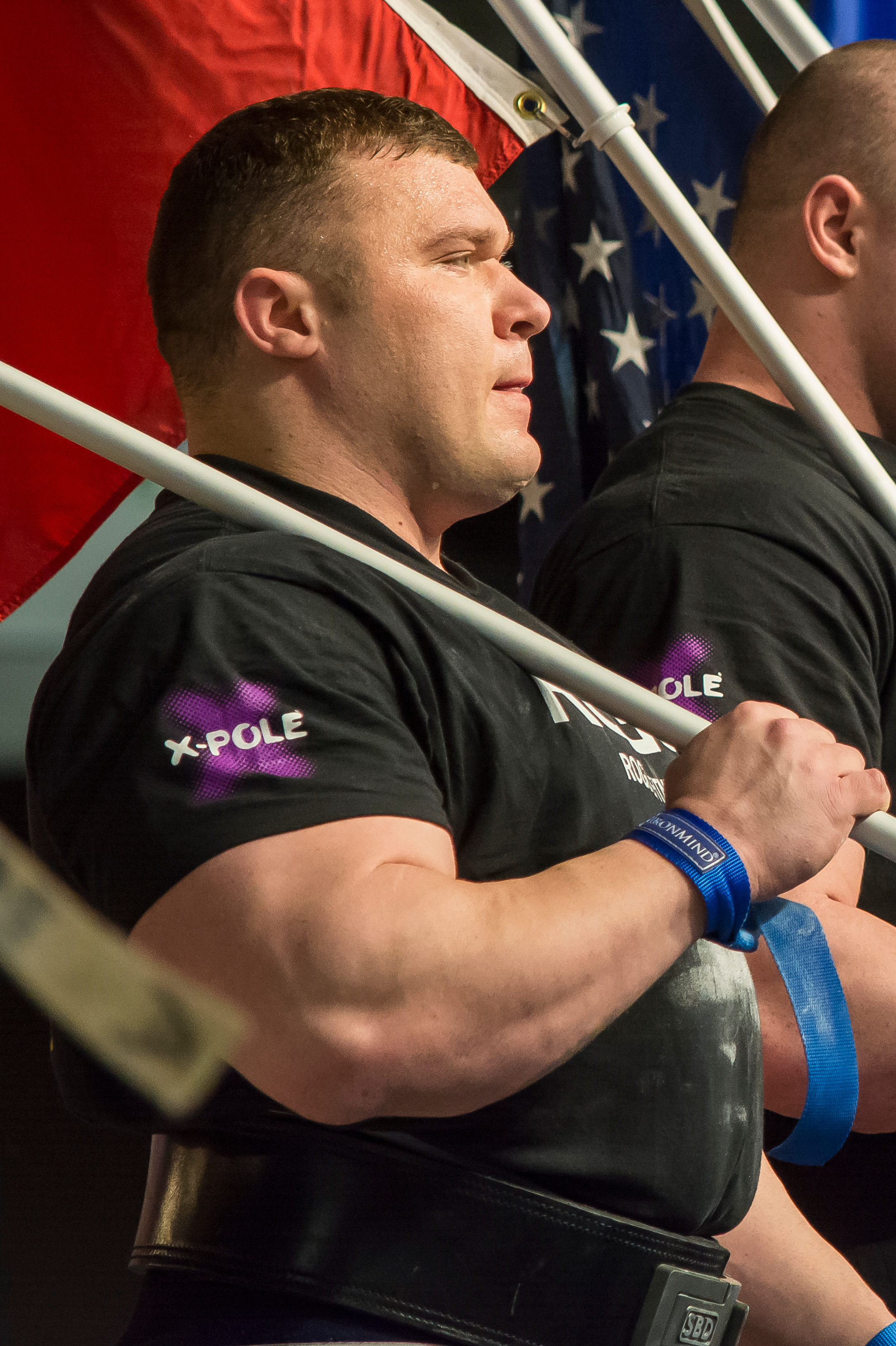 Aronald Classic Coulumbus, Ohio USA 2017